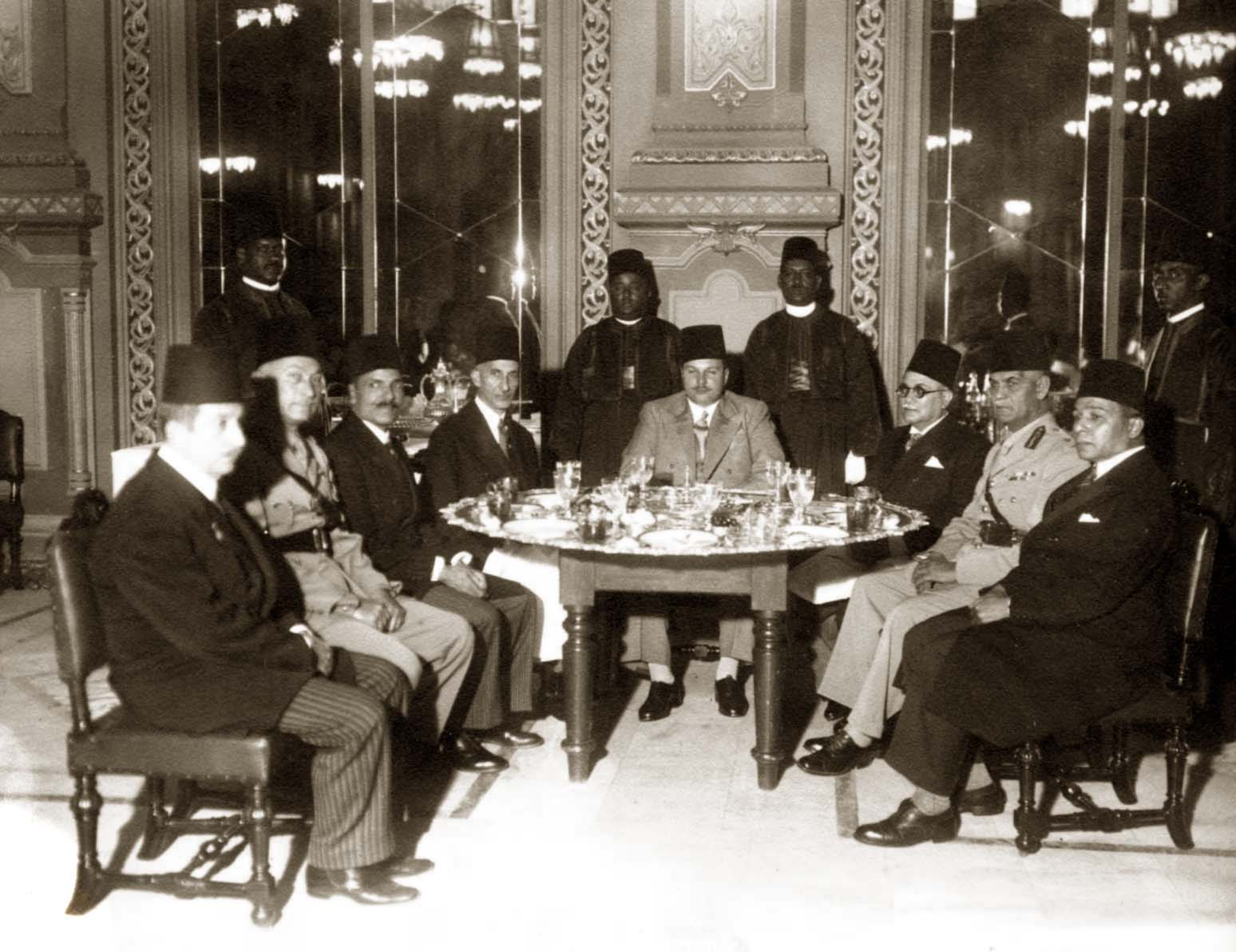 A Ramadan banquet organized by King Farouk I of Egypt.